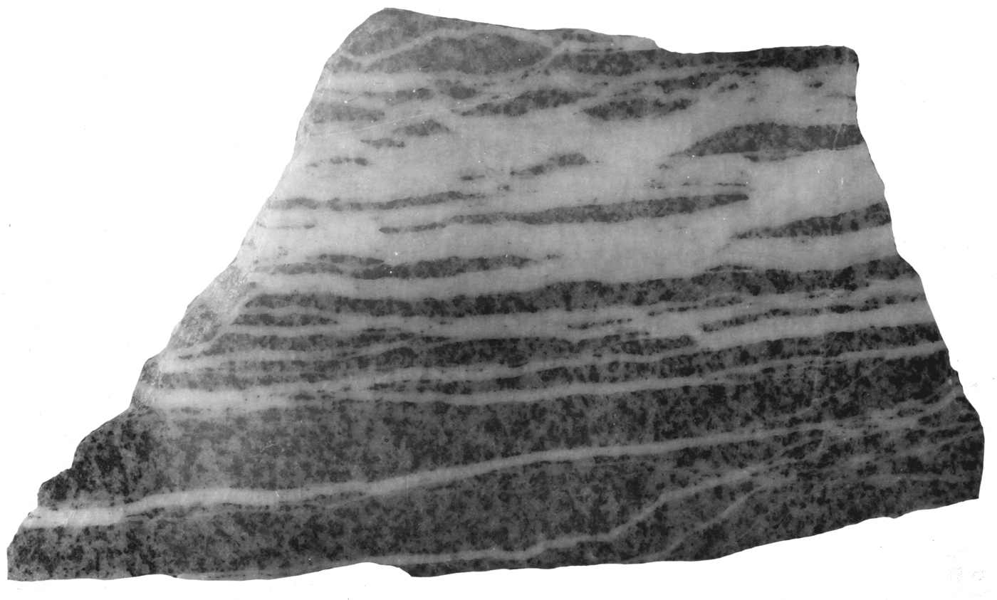 Polished slab of granodiorite showing sheeted zone of carbonate veinlets, North Star mine, No. 1 vein, 7,200-foot level. Nevada County, California. 1931. Plate 10-A, U.S.Geological Survey Professional paper 194. 1940.